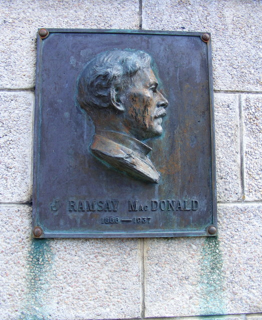 James Ramsey Mac Donald Born in Lossiemouth, he was the first Labour Prime Minister.